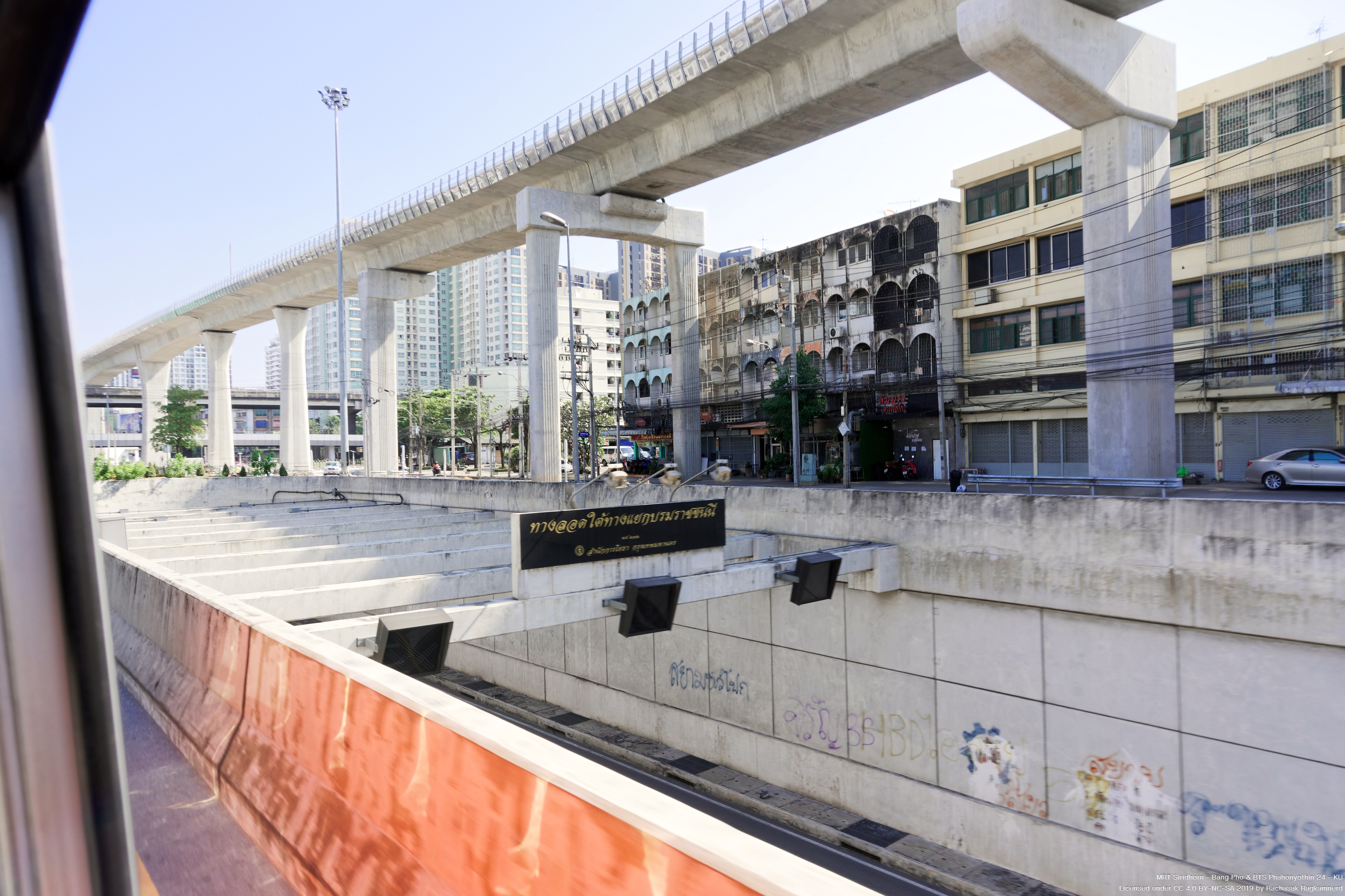 Baromratchachonnanee intersections tunnel